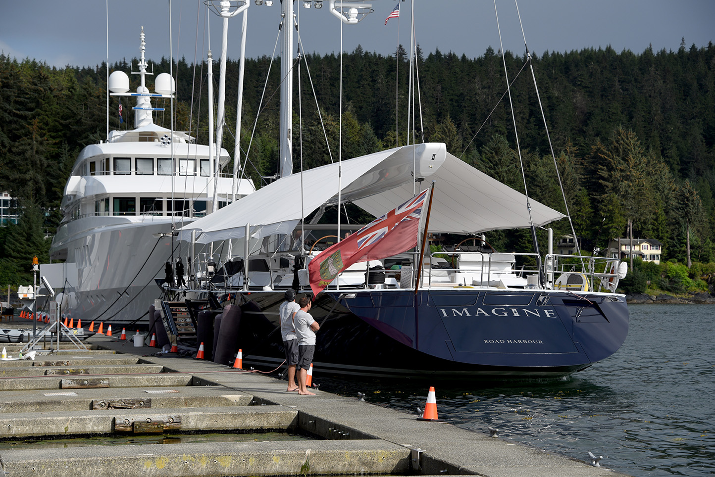 The Imagine. Built by Alloy Yachts of Auckland, NZ